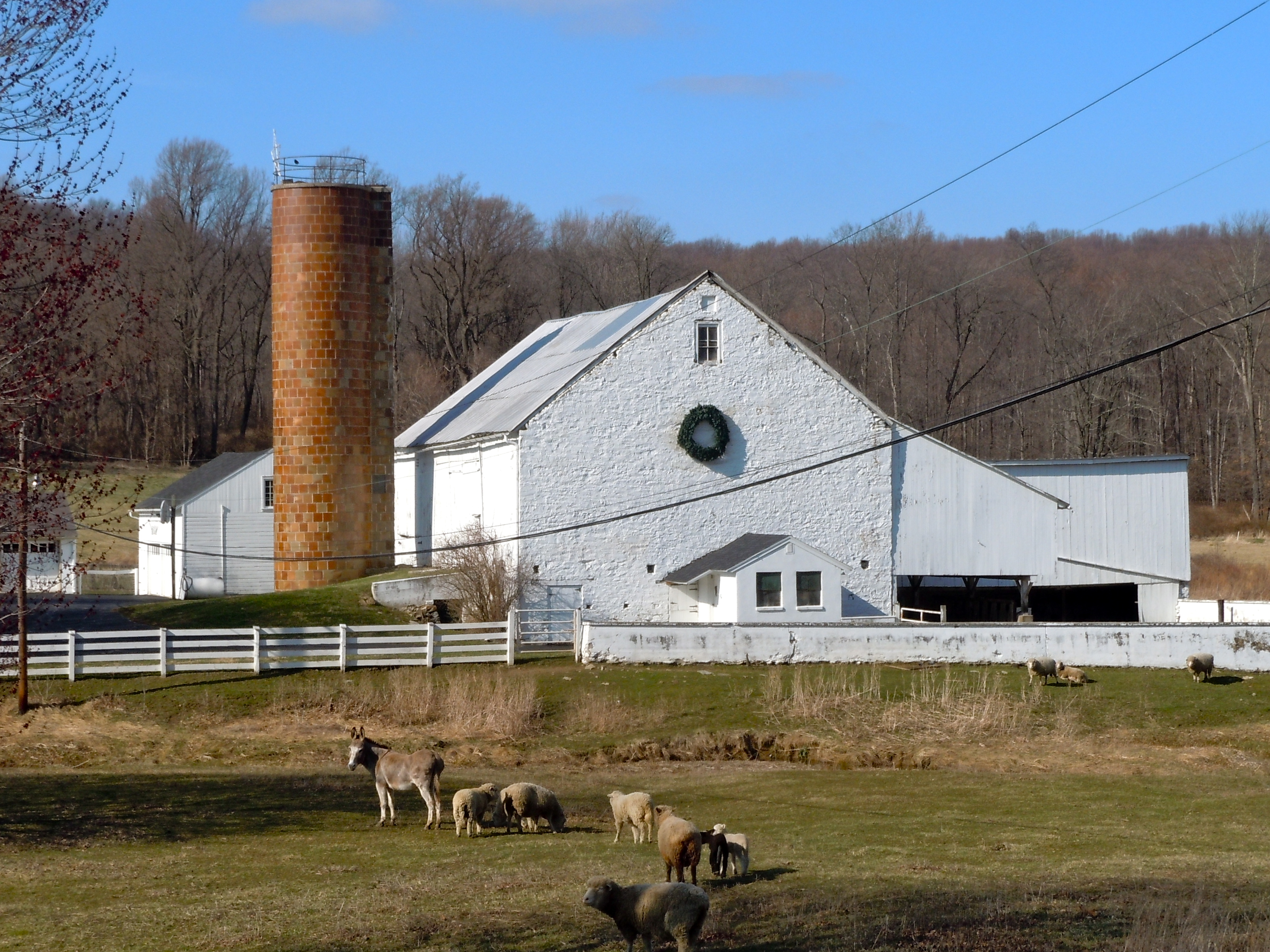 Hopedell Farm on the NRHP since January 11, 2010.On 1751 Valley Road (PA 372) in Valley Township, Chester County, Pennsylvania.